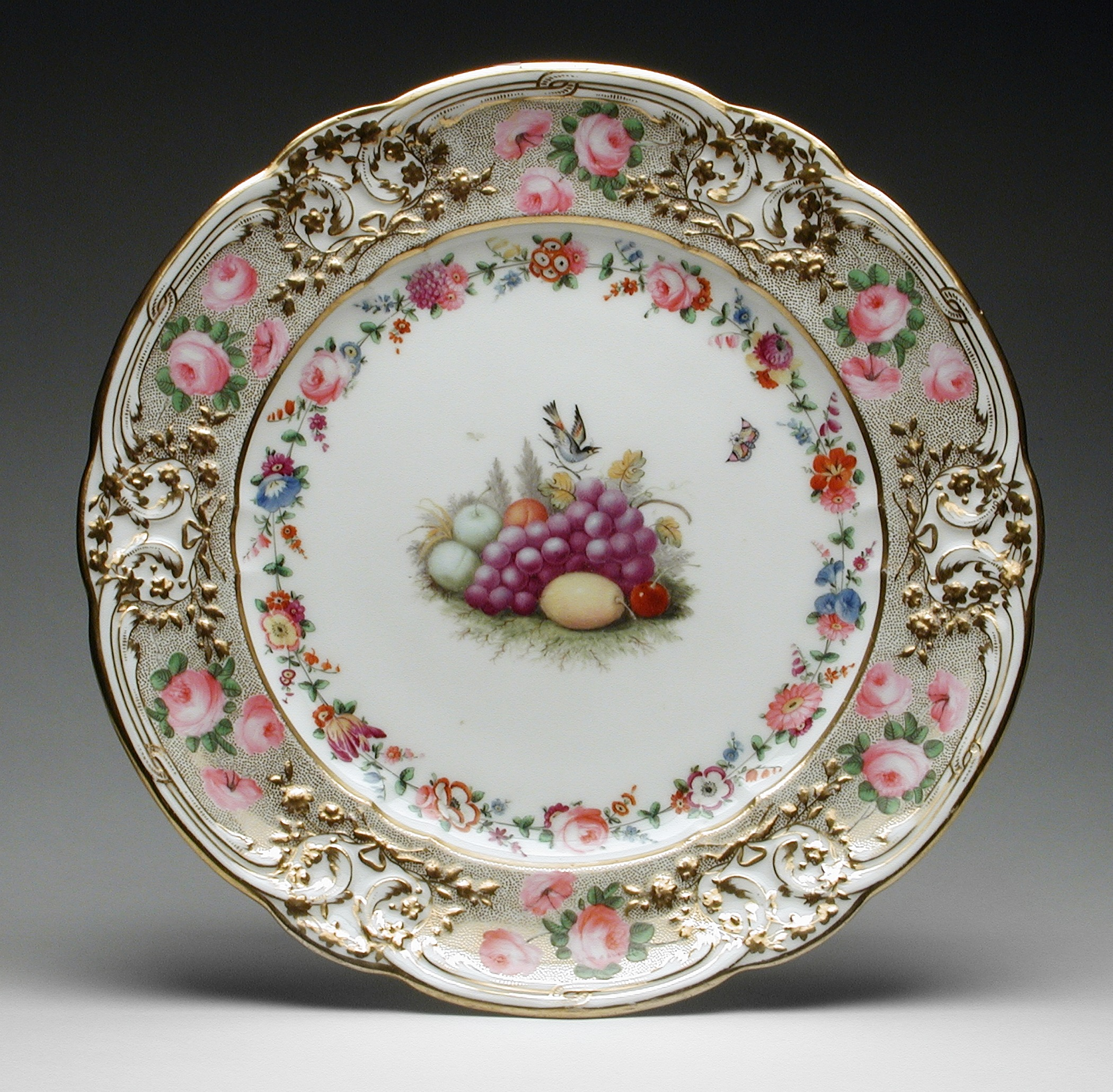 England, circa 1820 Furnishings; Serviceware Porcelain, gilding Gift of Walter T. Wells, Jr. (58.59.7) Decorative Arts and Design